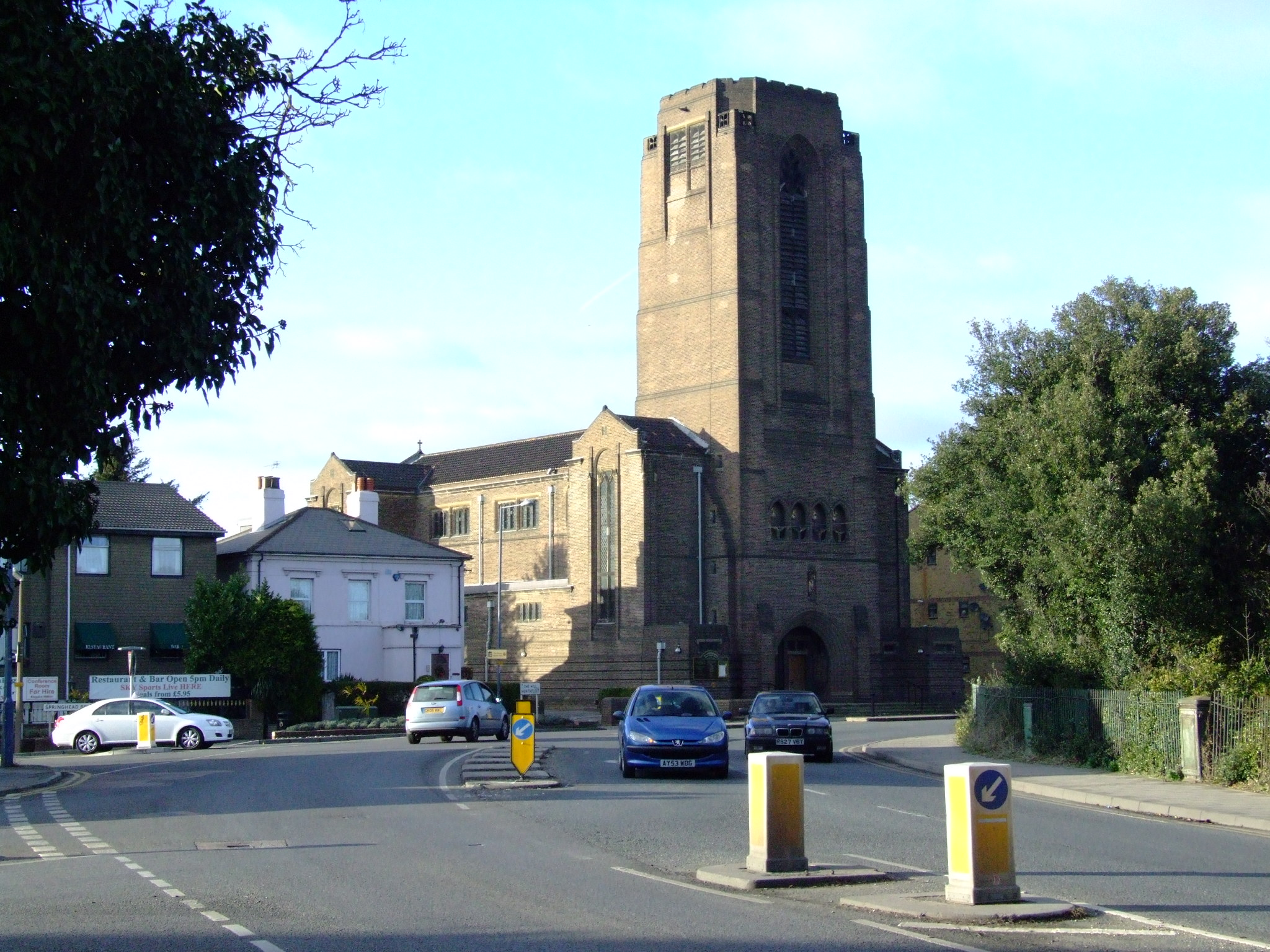 Northfleet merges with Gravesend in Kent. It is on the River Thames estuary. The shore has been excated for chalk, and heavy industry used the recovered land.. Roman Catholic Church of Our Lady. - OpenStreetMap(Info)